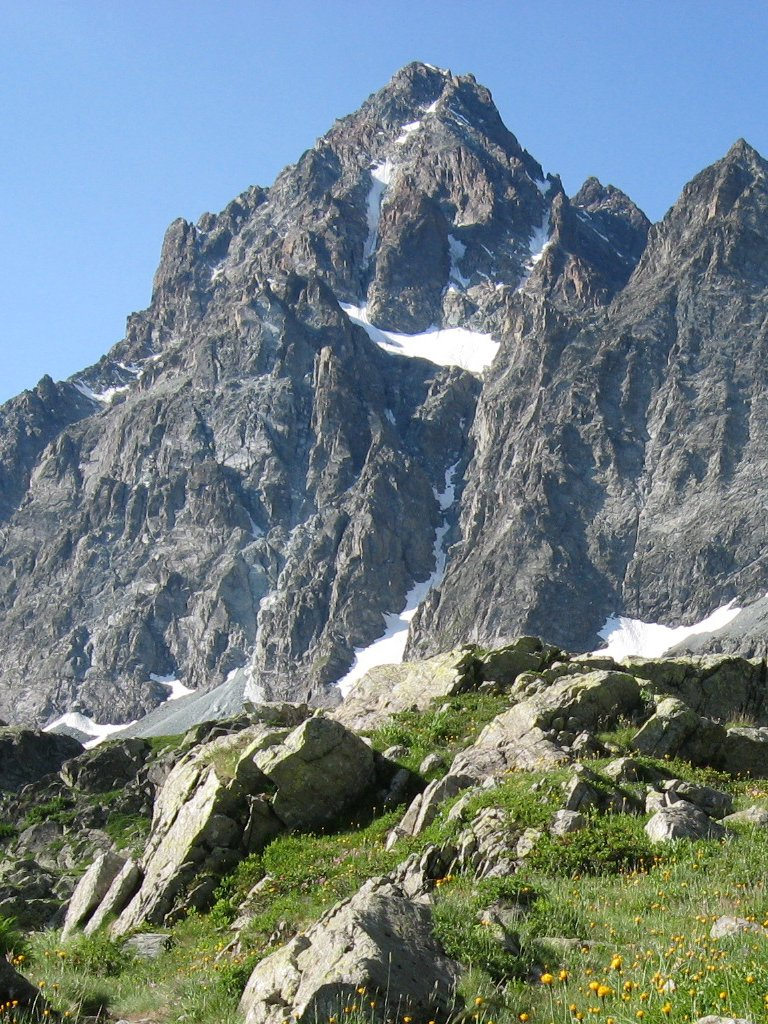 Monte Viso - North side